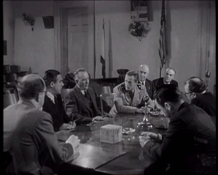 Panic in the Streets is a black and white, 96-minute film directed by Elia Kazan and released in 1950 by 20th Century Fox. It is film noir semidocumentary shot exclusively on location in New Orleans, Louisiana.